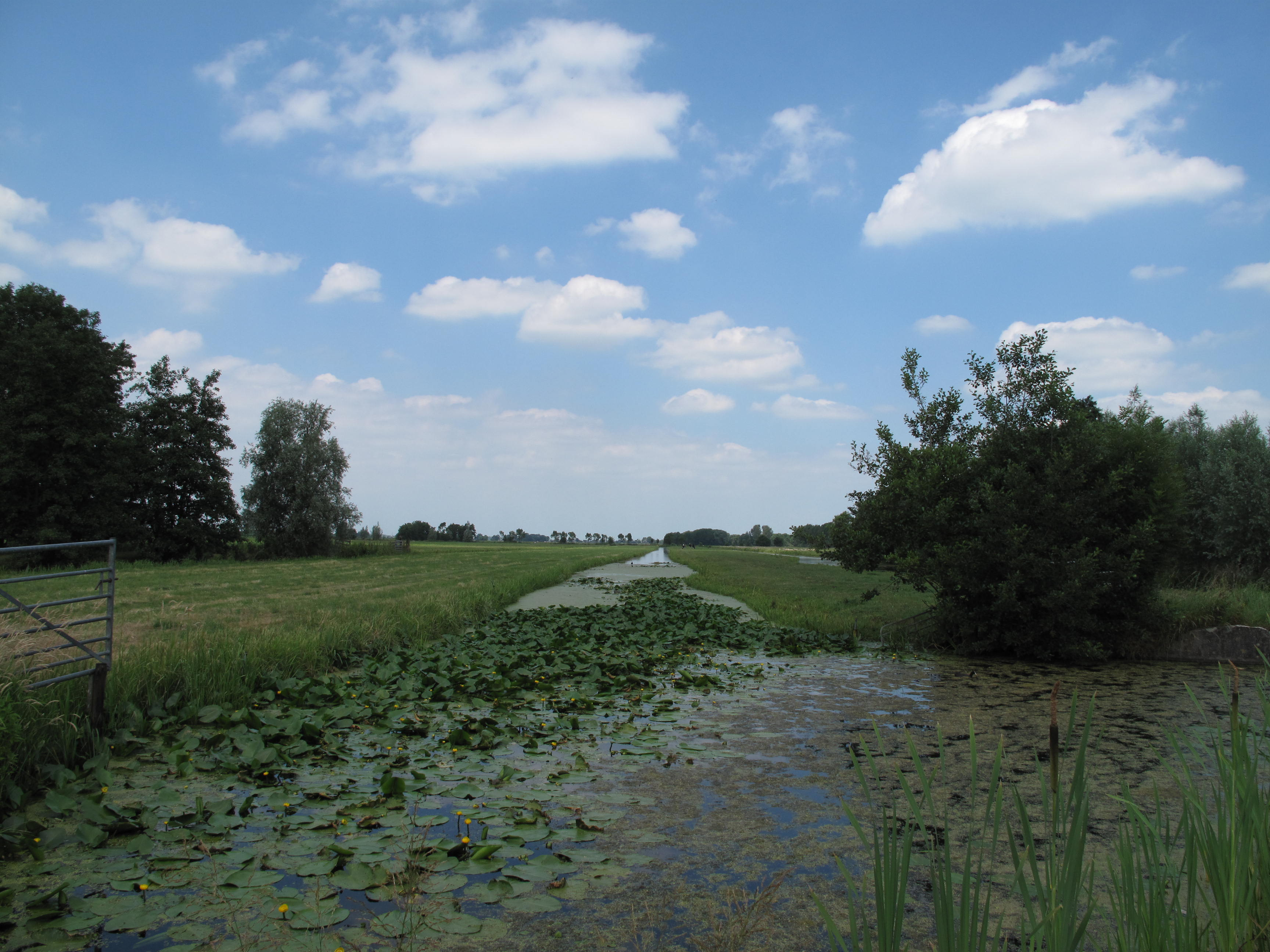 between Bergambacht and Schoonhoven, polder panorama